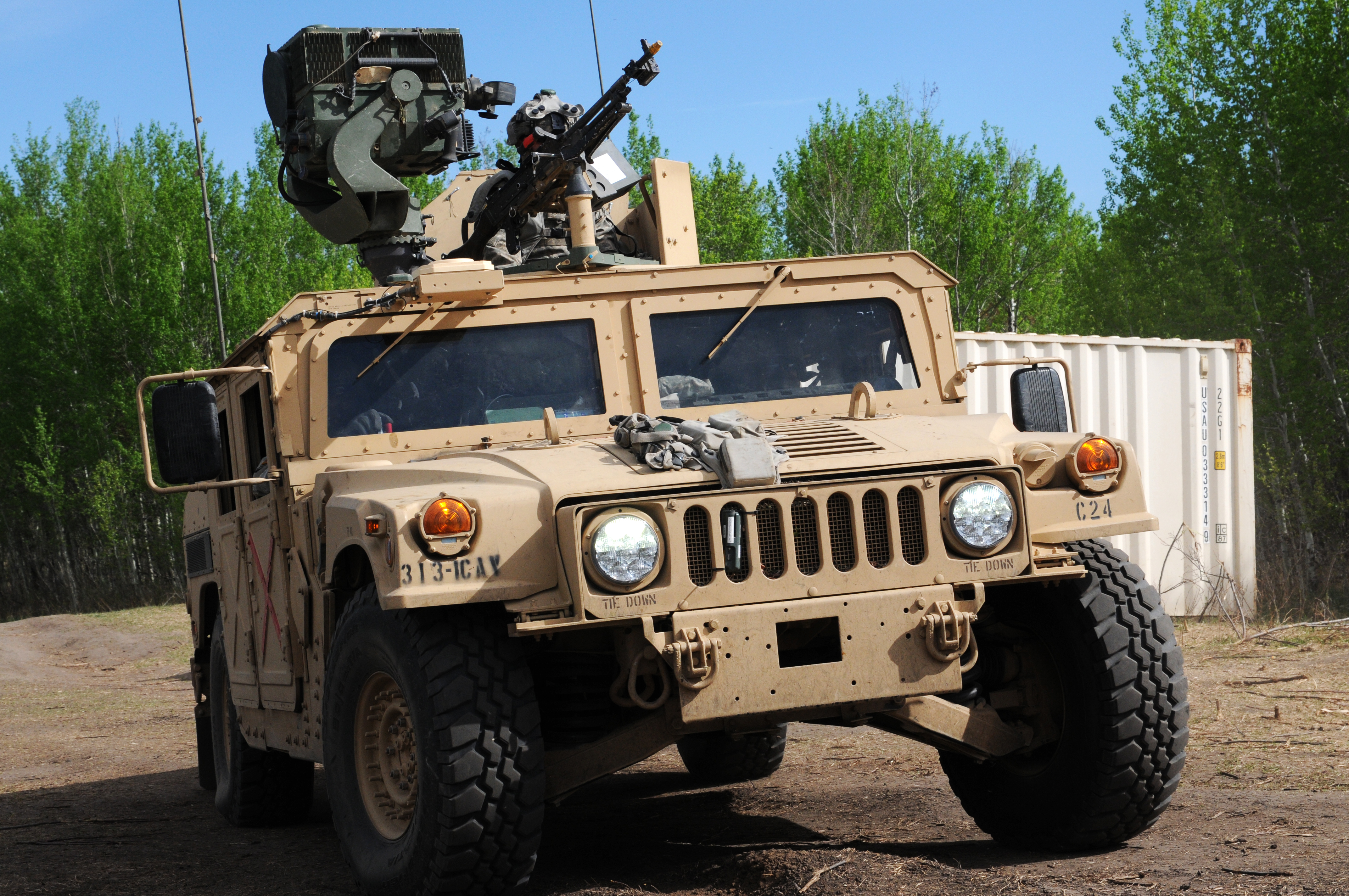 Soldiers of the 3rd Squadron, 1st Cavalry Regiment, 3rd Infantry Division out of Fort Benning, Ga., depart base camp during operations as the opposition force during Exercise Maple Resolve 2014 (EX MR14). Approximately 5,000 Canadian, British and U.S. troops participated in EX MR14, conducted here May 5-June 1. It is the culminating collective training event that validates the Canadian Army’s High Readiness force for operations assigned to it by the Canadian government through the Chief of Defense Staff.